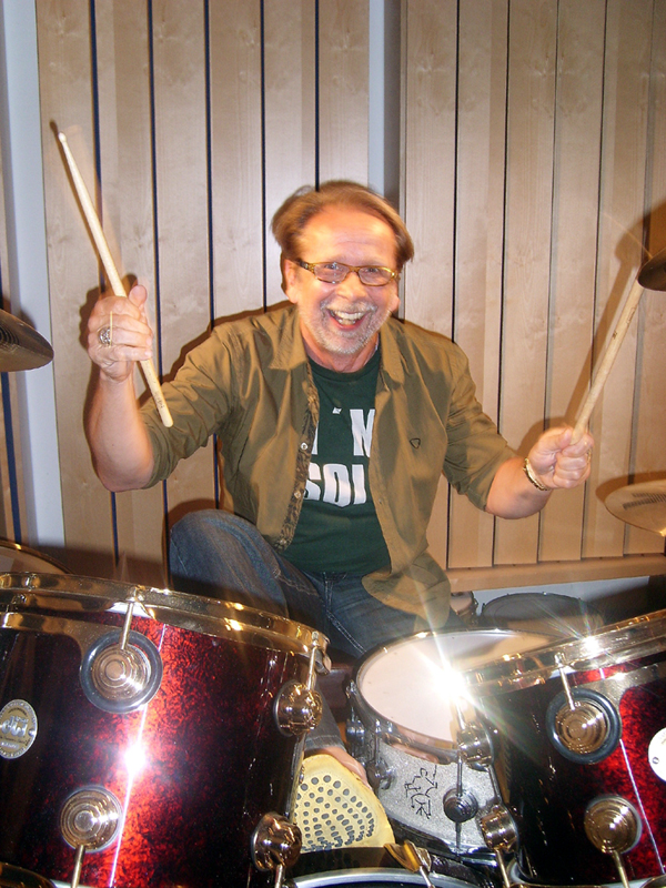 German drummer Curt Cress in his studio in Munich, Germany